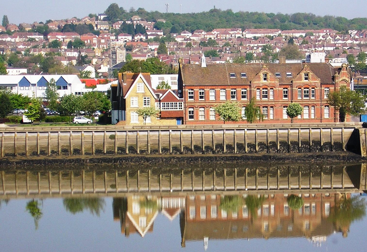 Record of the demolition of the Aveling and Porter offices, in Strood, Rochester, Kent during February 2010. The architect, G E Bond built this and many other public buildings in The Medway Towns including the former Chatham Town Hall, St Andrews Church, the River Medway Conservancy Board Offices, and the now derelict Theatre Royal Chatham. Before the demolition in 2009.